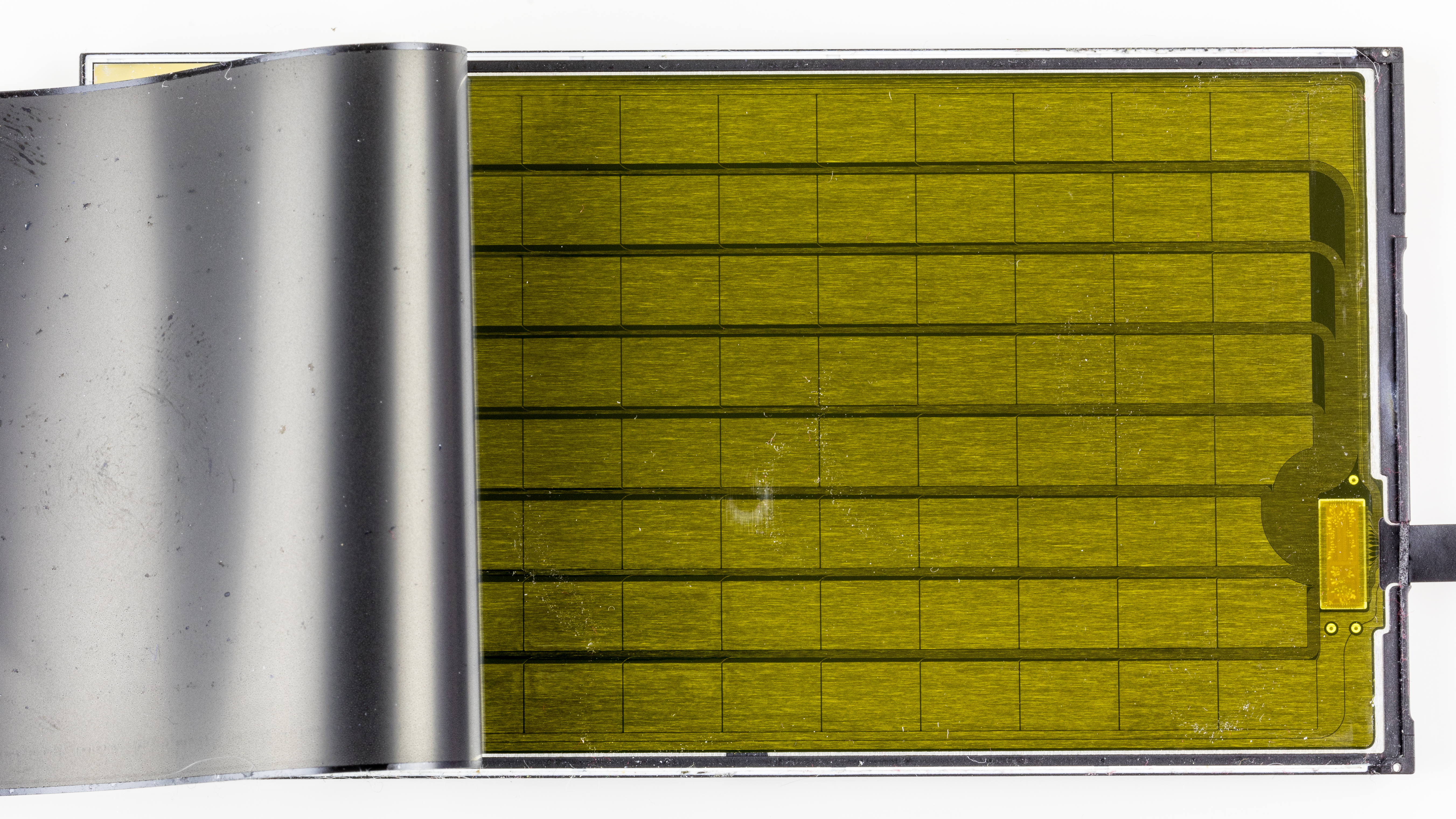 IPhone 6s - display - 3D Touch sensor (capacitive sensors)